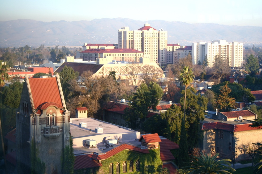 from a corner window on one of the middle floors of mlk. I figured I would show my new Rebel XT (what do we think of 'Cora' as a name?) a proper debut out on the town - really just a bit of playing around 4th street in downtown San Jose. I came early in the afternoon but left the battery in the charger and had to drive back to Campbell. Silly me.